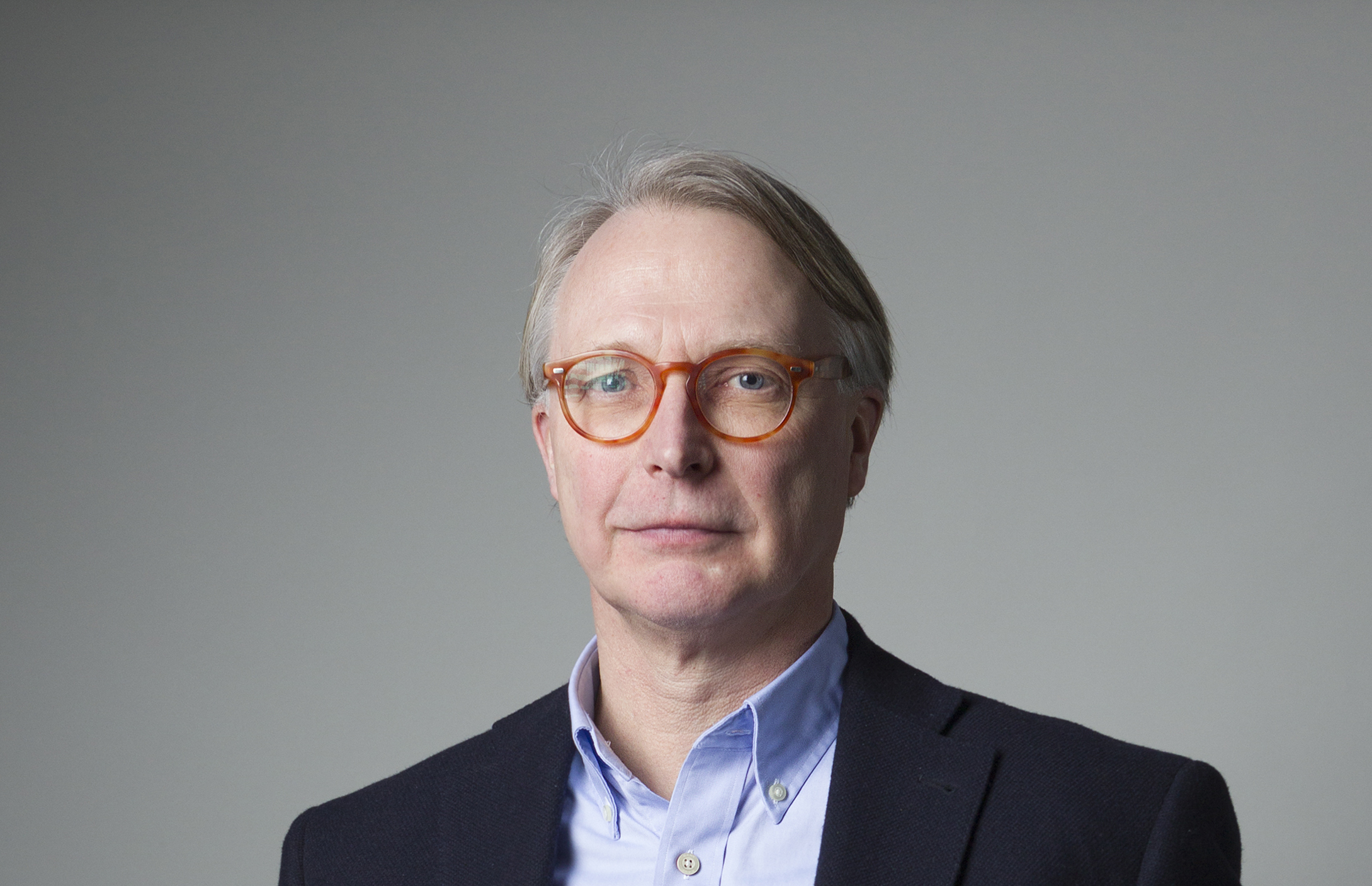 The Swedish ecologist Carl Folke